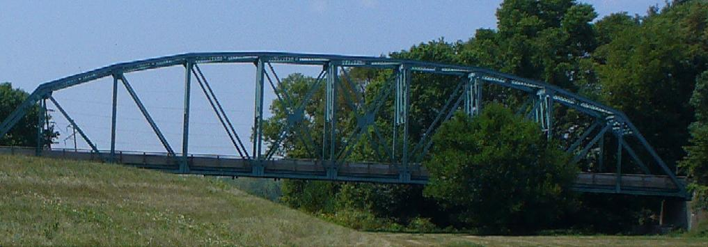 Mount Carmel bridge between Indiana State Road 64 and Illinois Route 15, captured in 2007 prior to replacement and removal in 2011